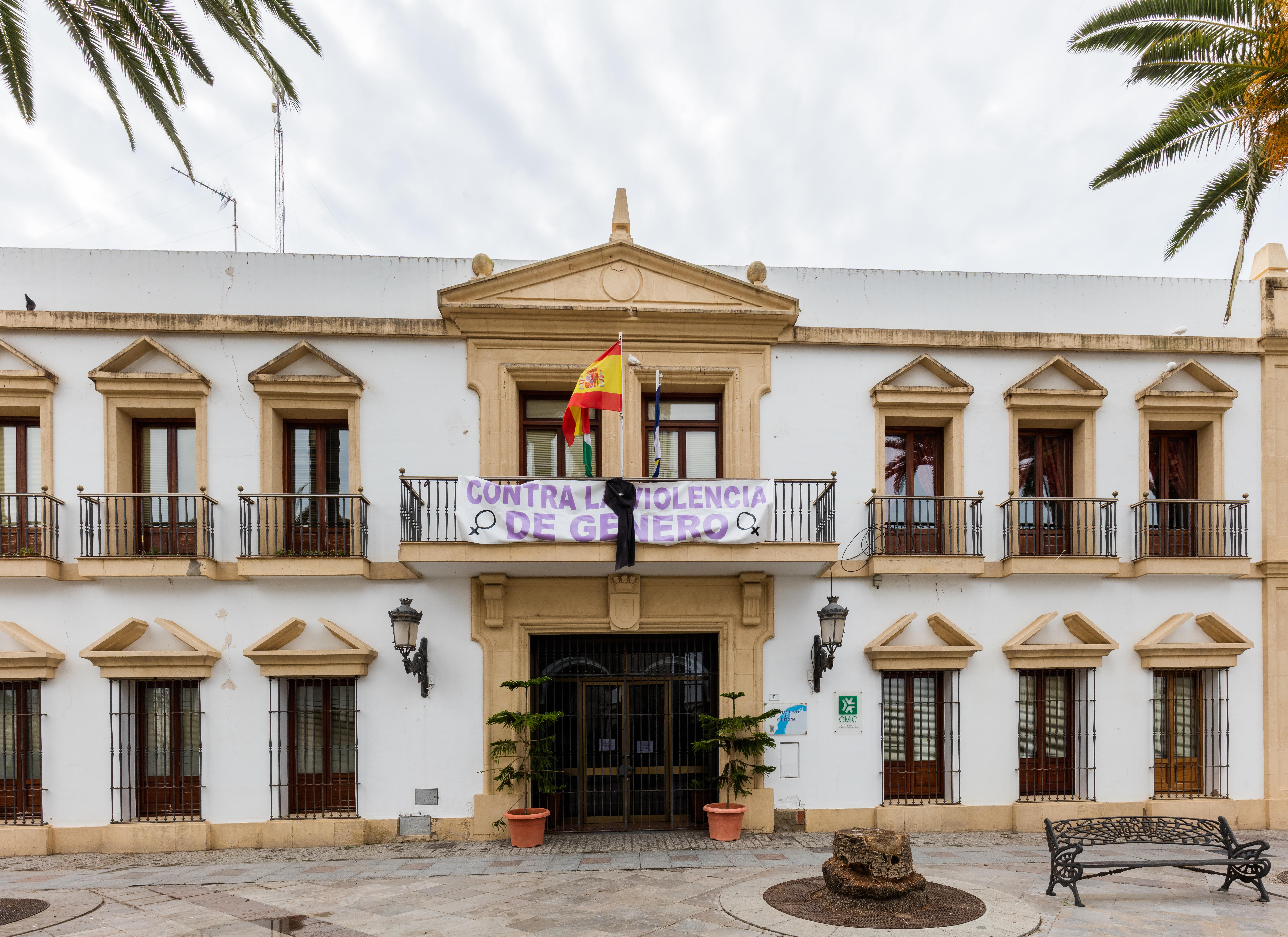 Town hall of Chipiona, Spain